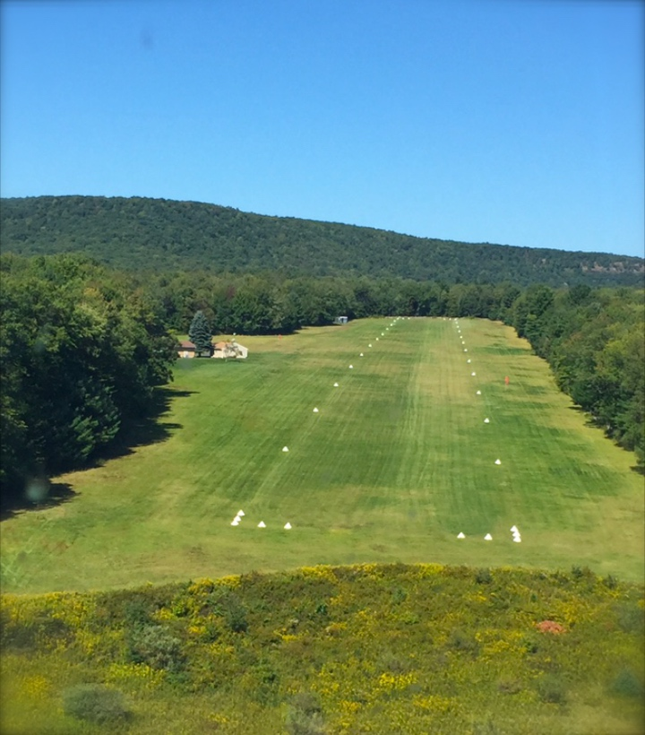 Flying Dollar Airport, Runway 02, Summer, 2016